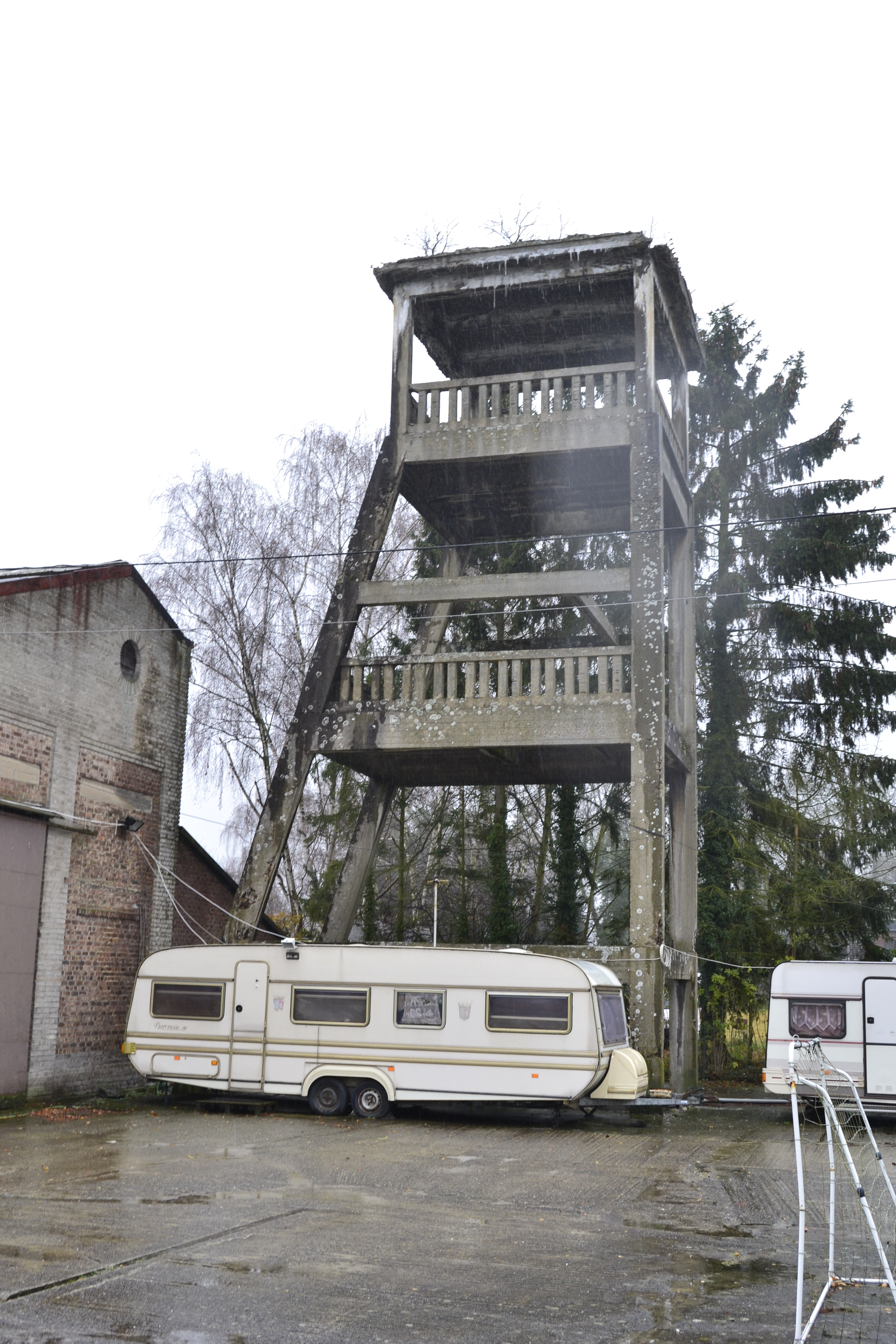 Ancient pit of the Halette coal mine in Mons-lez-Liège, Liège, Belgium